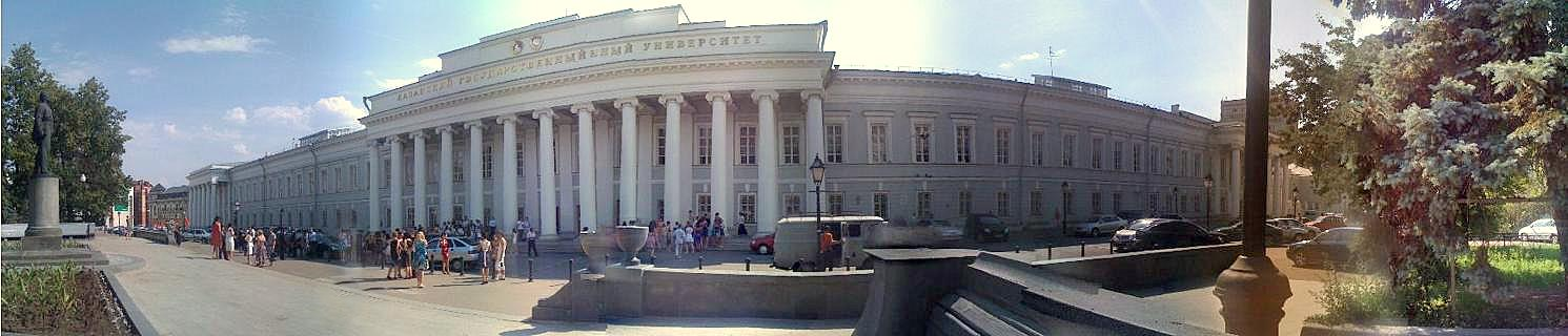 Panorama of Kazan State University